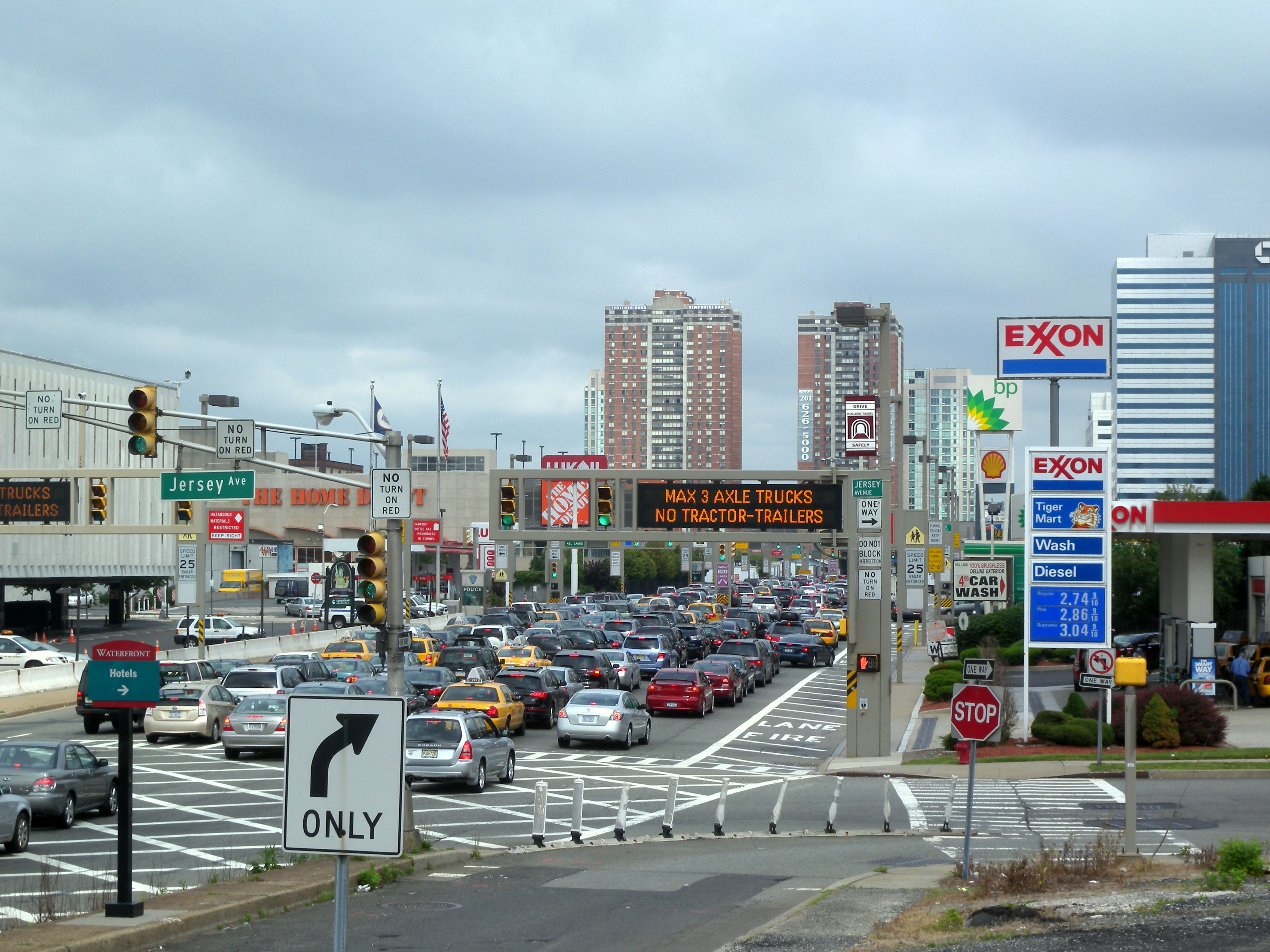 Looking east as I-78 crosses Jersey Avenue on its way to Holland Tunnel on a cloudy afternoon.